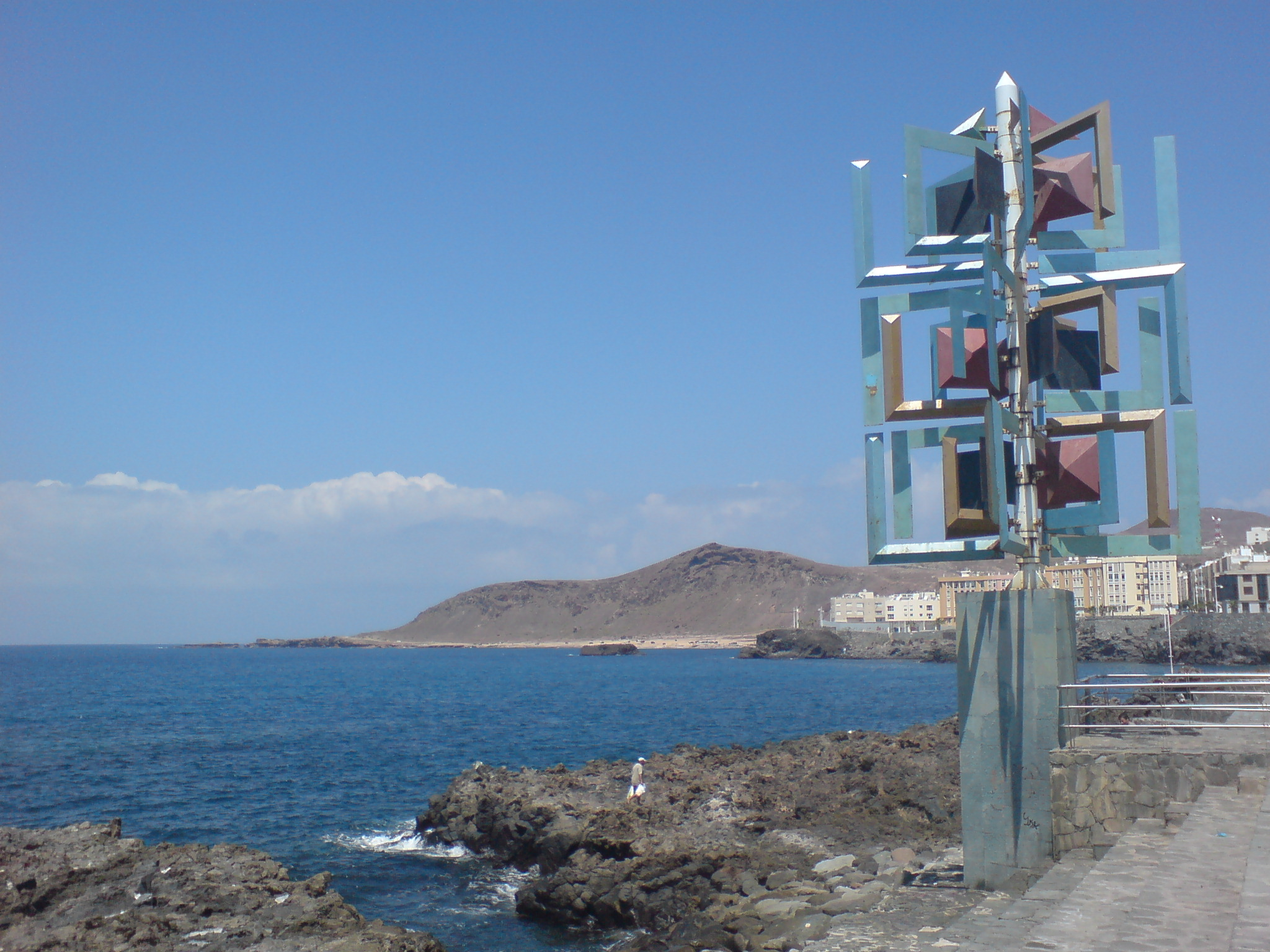 "Movil al viento" (wind mobile), a work of Cesar Manrique, located in the Las Canteras Beach. Las Palmas de Gran Canaria. Canary Islands, Spain.